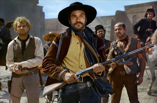 Aldo Sambrell as Duncan in Navajo Joe, released in 1966